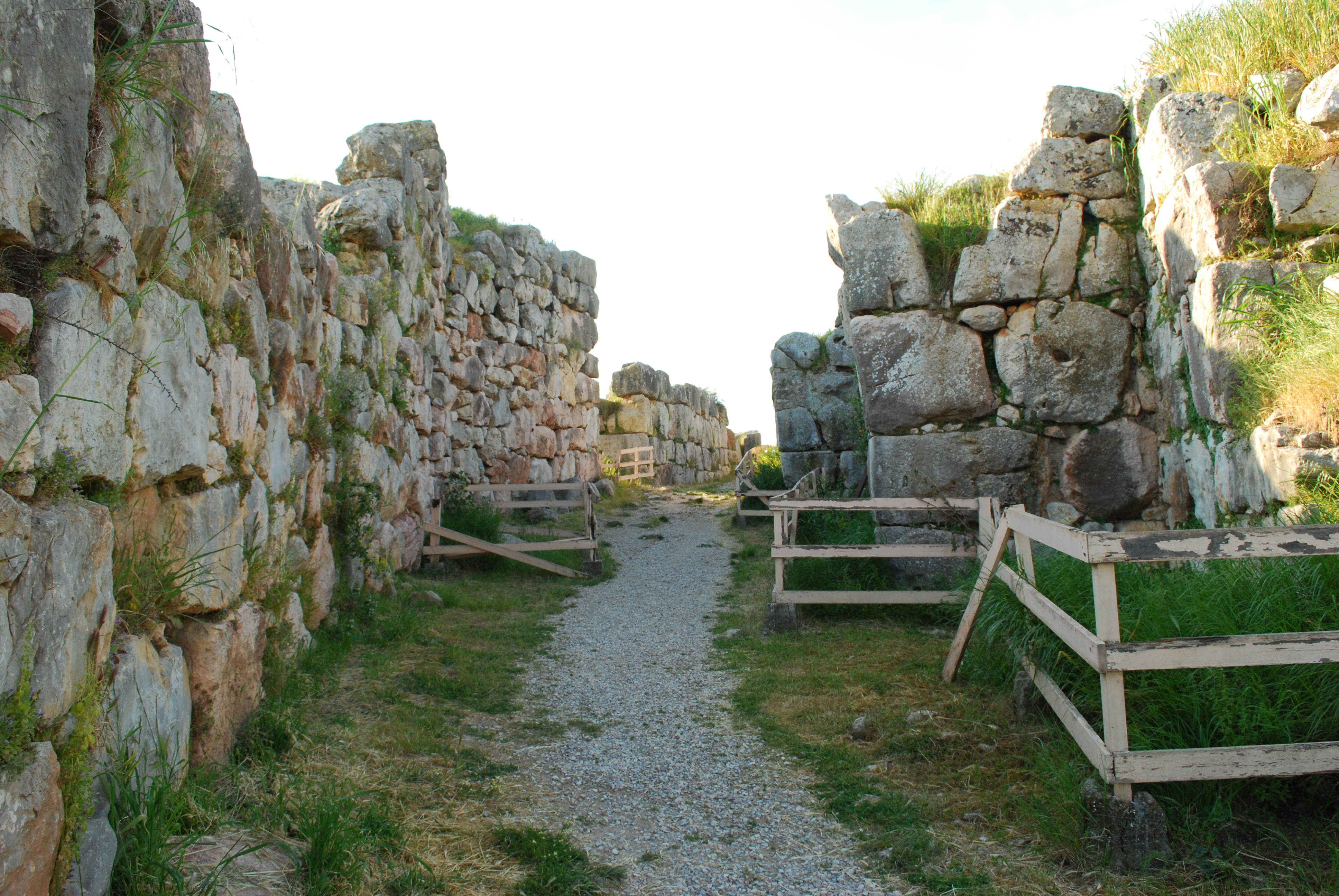 Tiryns fortress.